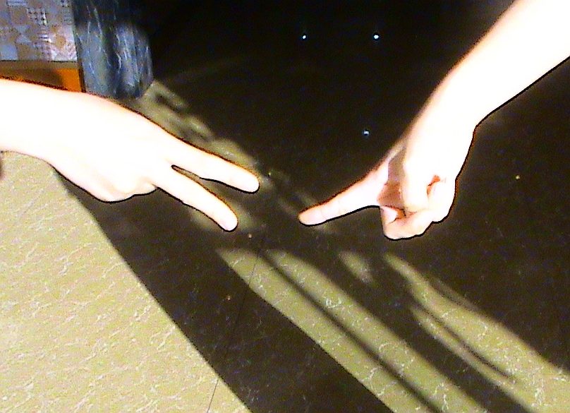 Example of "odds" in the game "odds and evens"